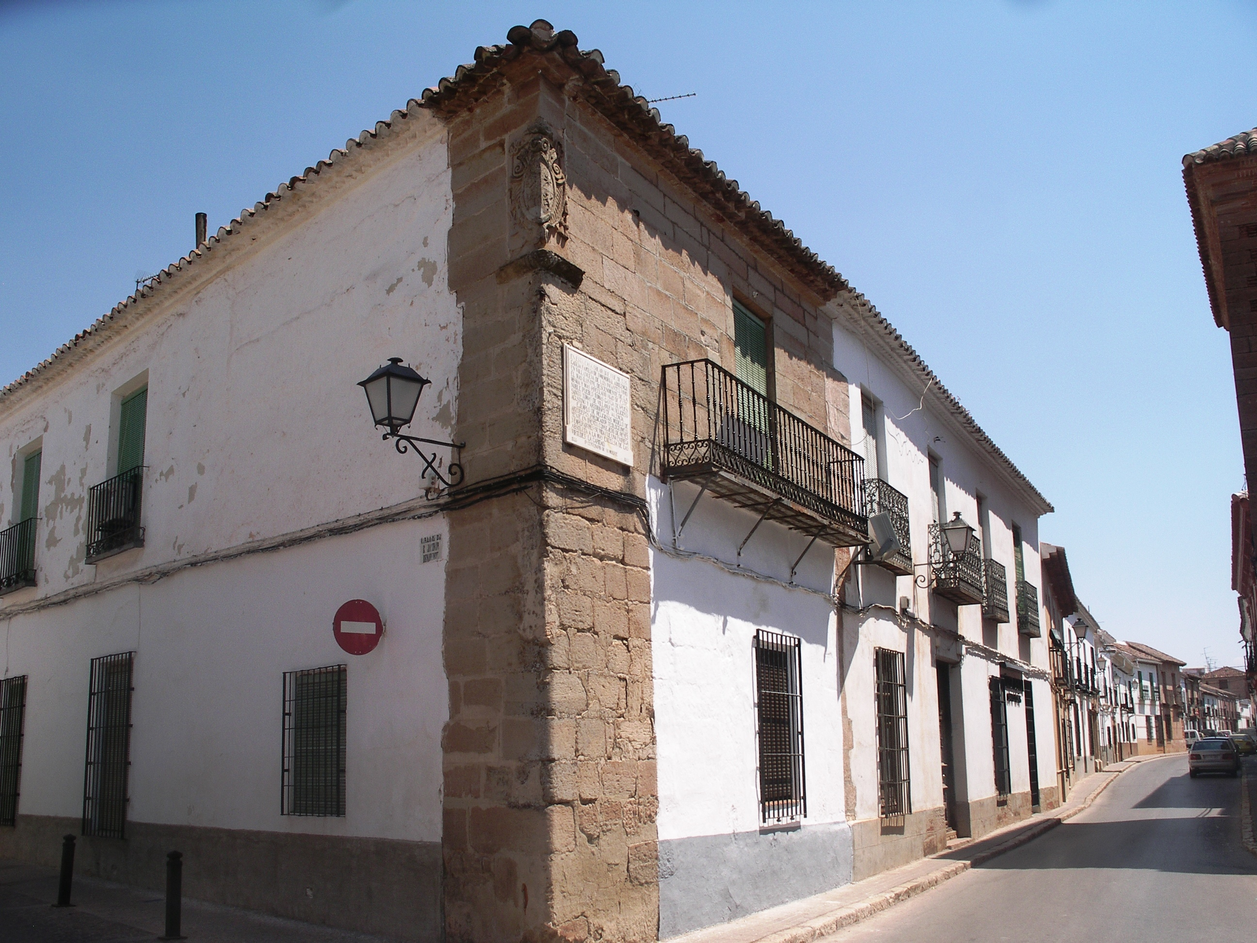 Casa natal de Sant Tomàs a Villanueva de los Infantes.